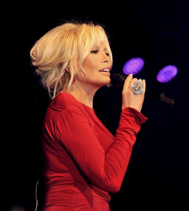 Turkish singer Ajda Pekkan during a concert in 2013